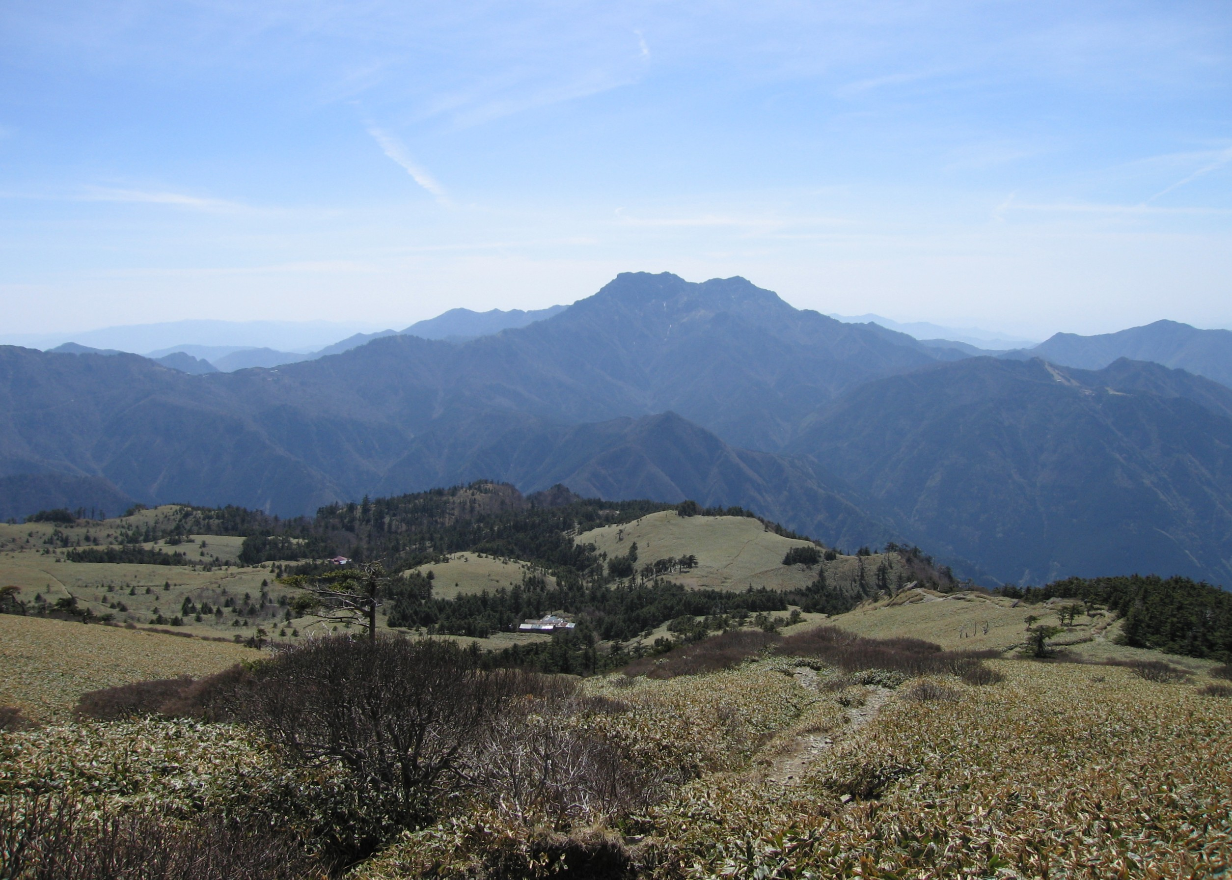 The ENE side of Mount Ishizuchi as seen from Mount Kamegamori.